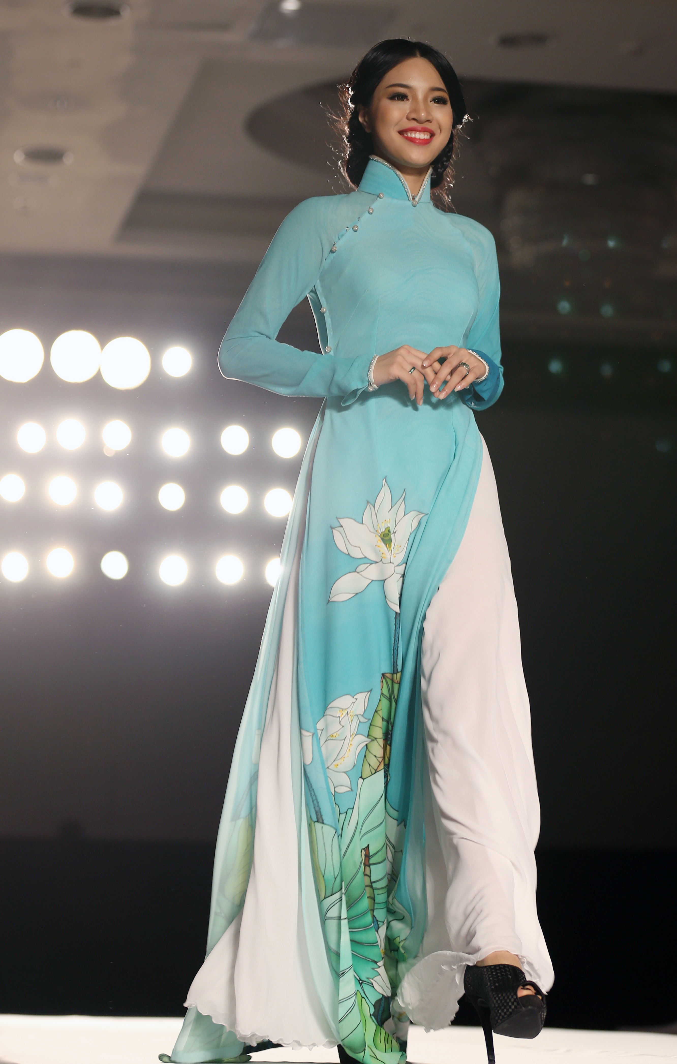 Hanbok-Ao Dai Fashion Show, Hanoi, Vietnam